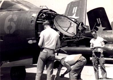 Maintenance on the Westinghouse APQ-35 radar of a Douglas F3D-2 Skyknight night fighter of Marine night fighter squadron VMF(N)-513 Flying Nightmares parked at airfield Kunsan in the Summer of 1953.